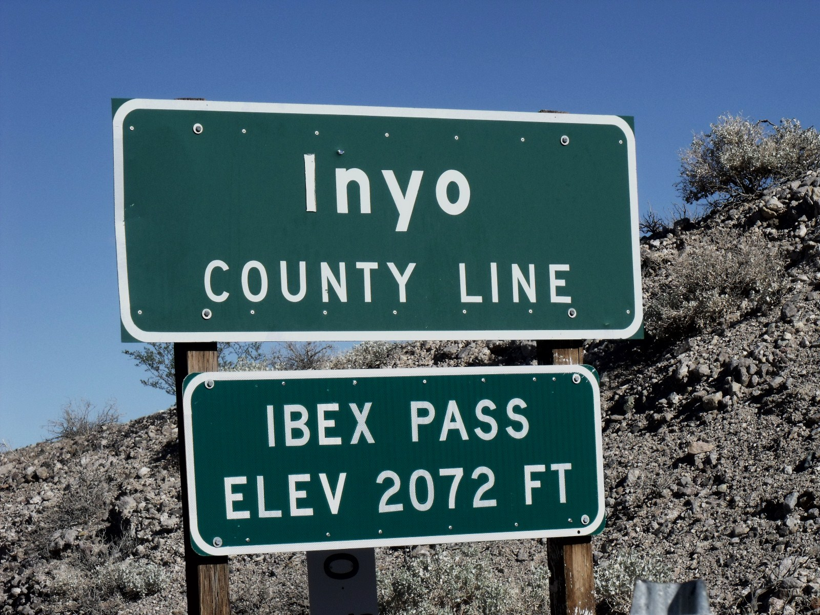 Ibex Pass, traversed by Route 127, in the Mojave Desert, California.